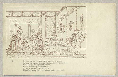 Fyodor Tolstoy. An illustration to Ippolit Bogdanovich's Dushenka (1820-33).